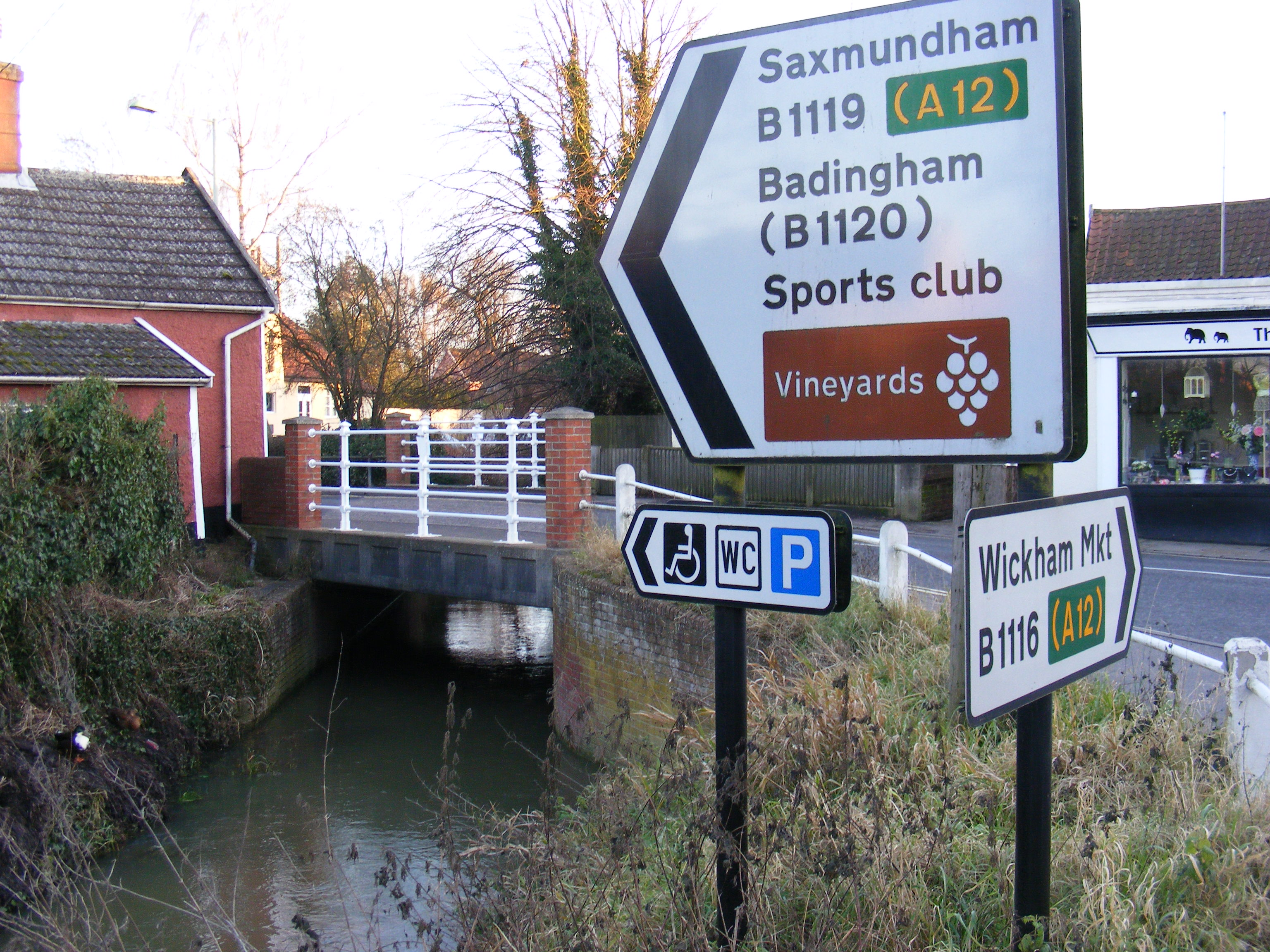 Left to Saxmundham & Badingham, straight on for Wickham Market At the junction with Fore Street, Framlingham.